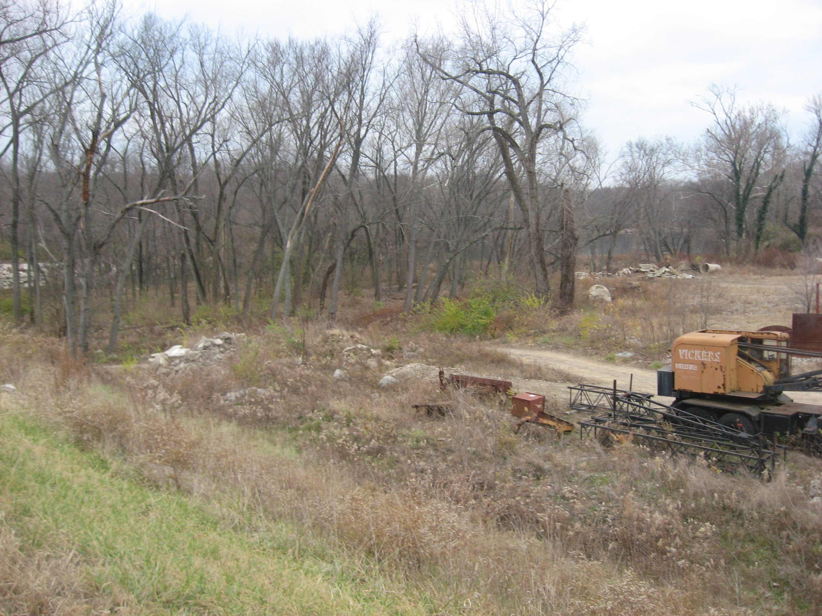 Land on the northern bank of the Great Miami River on the western side of Wayne-Madison Road at Woodsdale, Ohio, United States. This was once the site of the Augspurger Grist Mill, which was built in 1868 and listed on the National Register of Historic Places in 1984; although it has been destroyed, it is still listed on the Register.